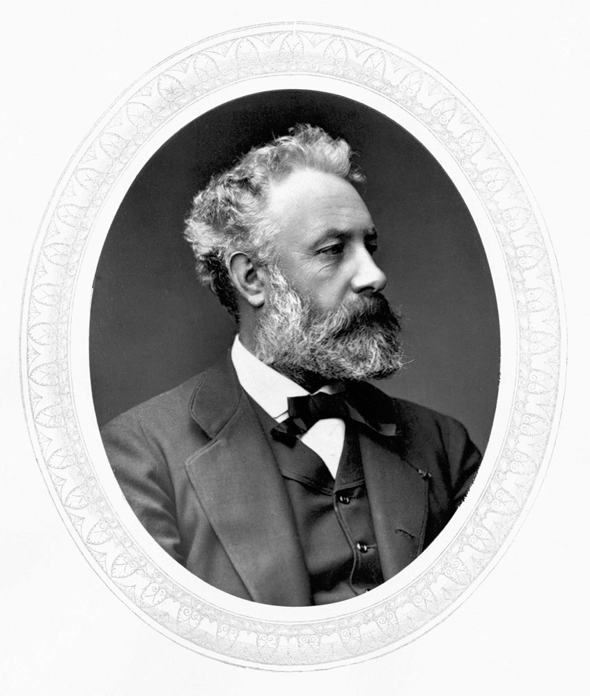 Portrait of Jules Verne, from the 1876–1883 Men of Mark series by the photographers Lock & Whitfield.